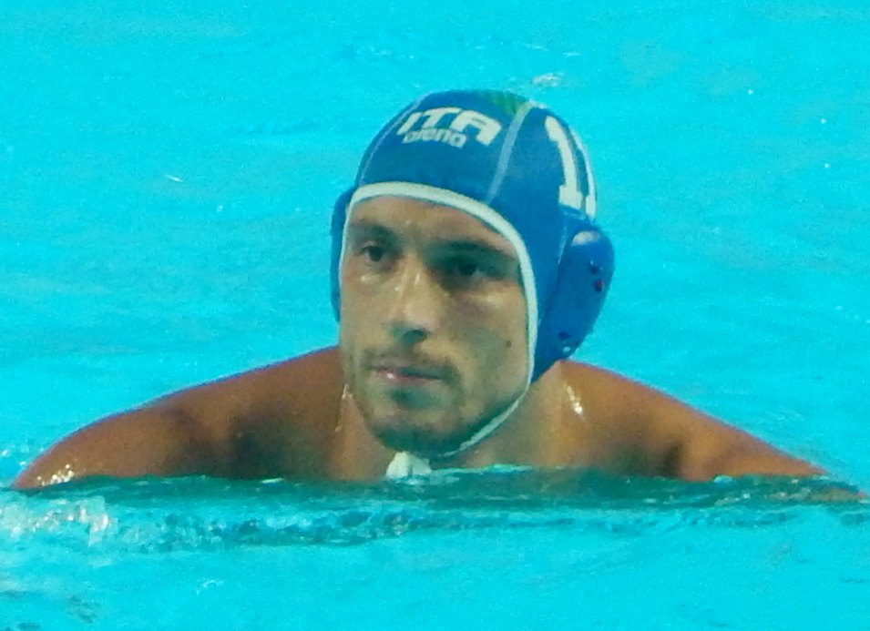 The bronze medal match between Team Greece and Team Italy. All photos have been taken from the photographers sector. I was simply usual visitor but my ticket was to non-existent seats, therefore I was moved to that sector. All good photos I upload to WikiCommons for free use.